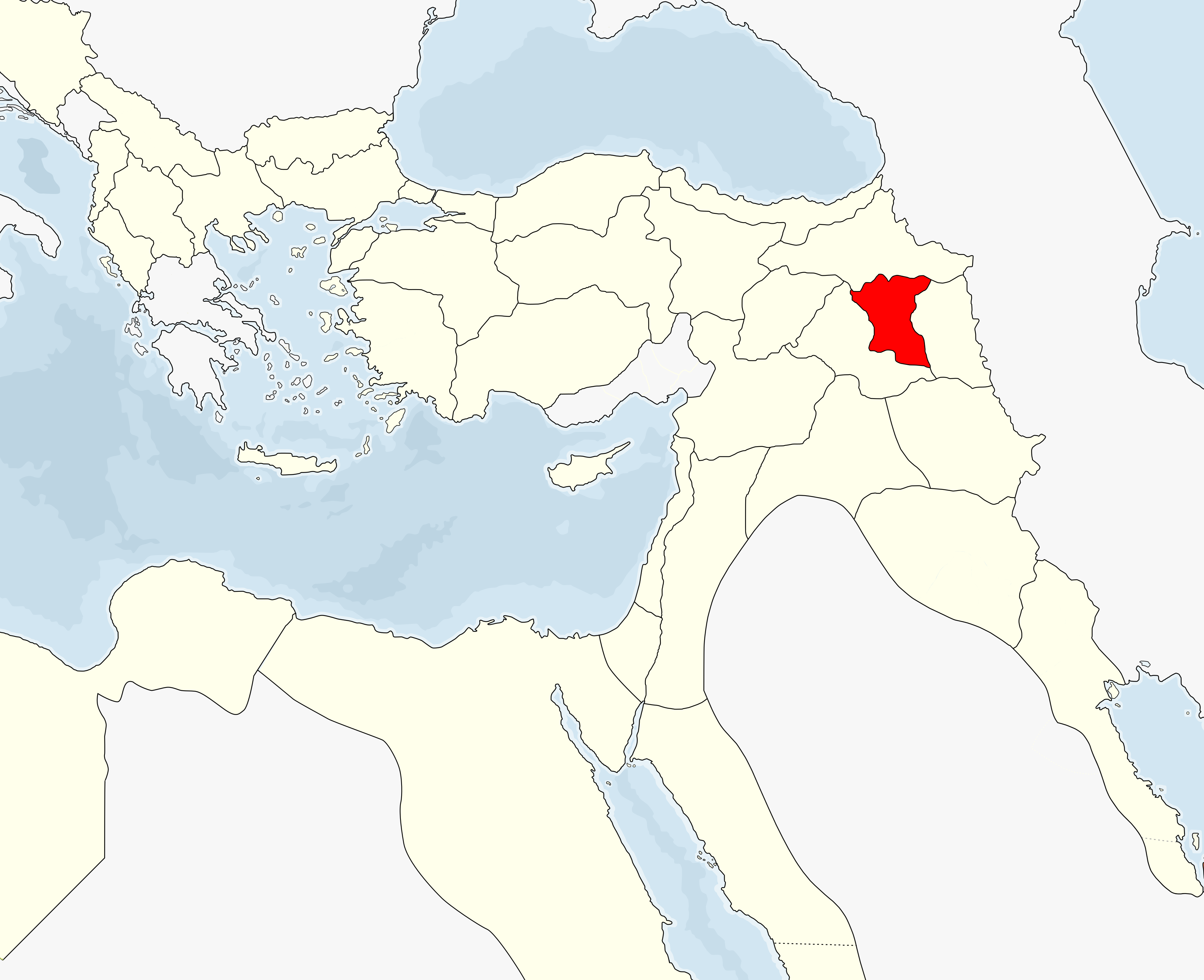 Bitlis Vilayet, 1900 According to the information of this map: [1]